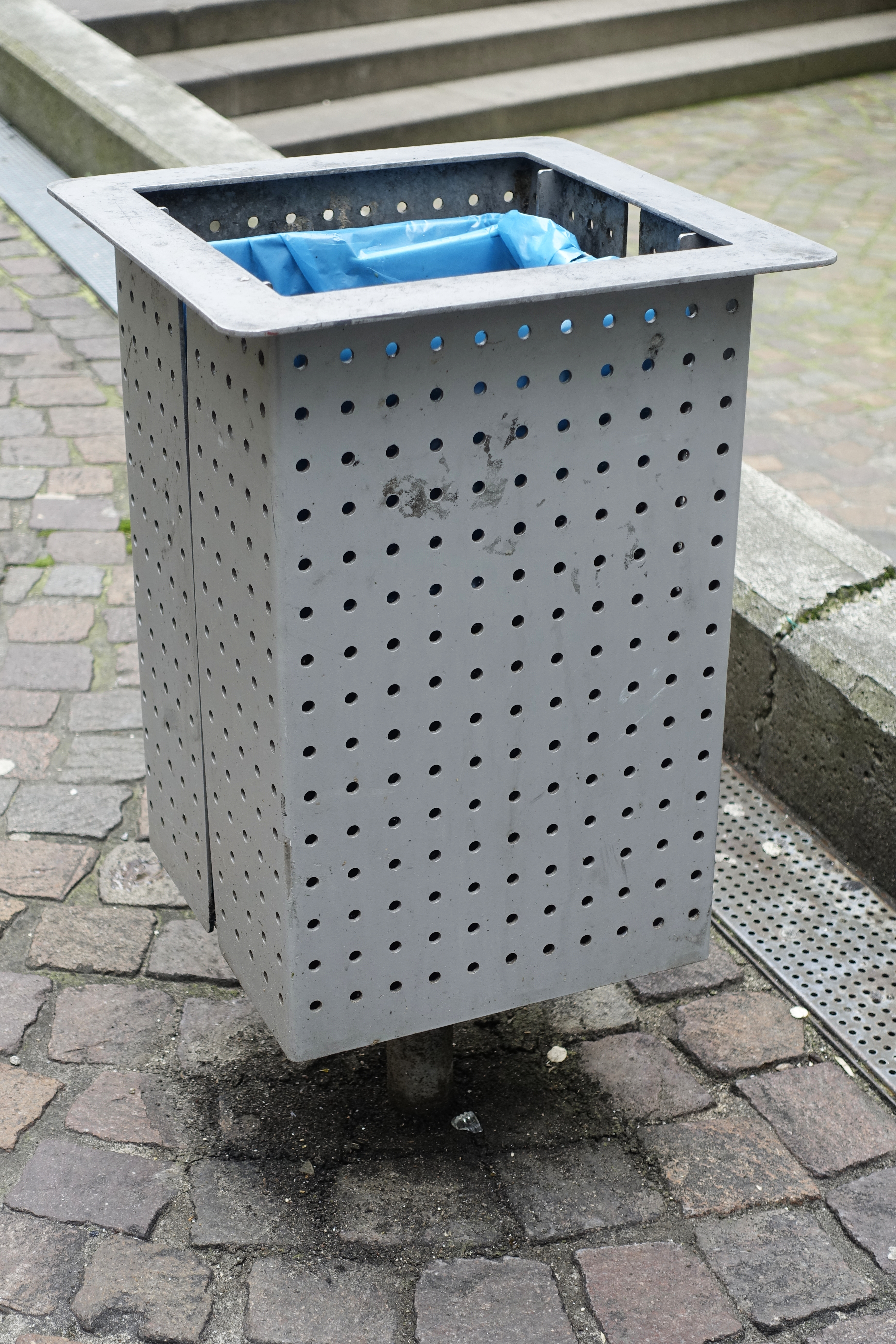 Waste bin made of perforated plate